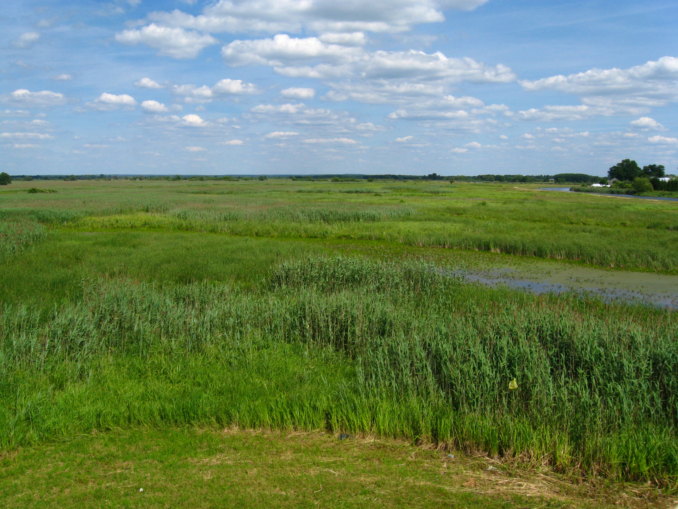 Narew (back, on the right side) river and its pools (center) by Tykocin at Upper Narew Valley